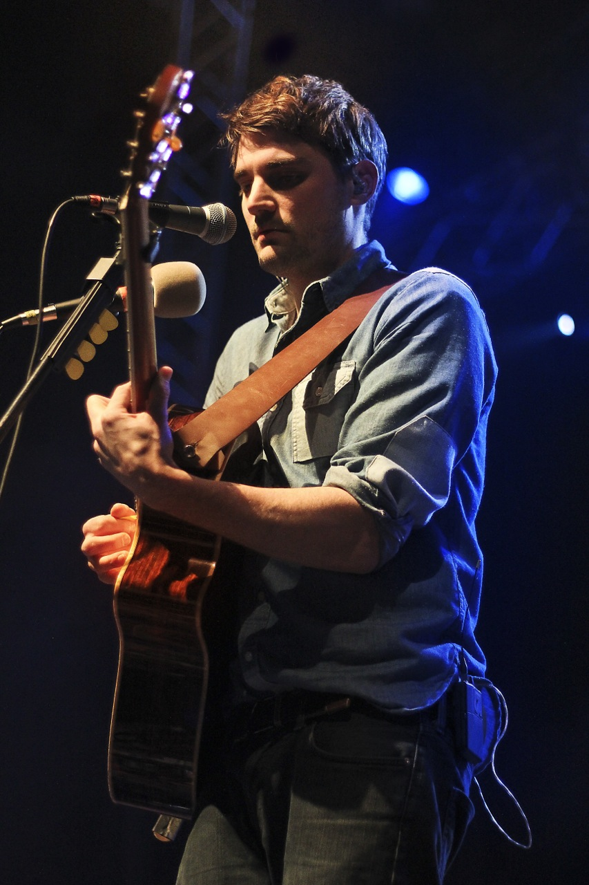 Hey Rosetta! performing during 2012